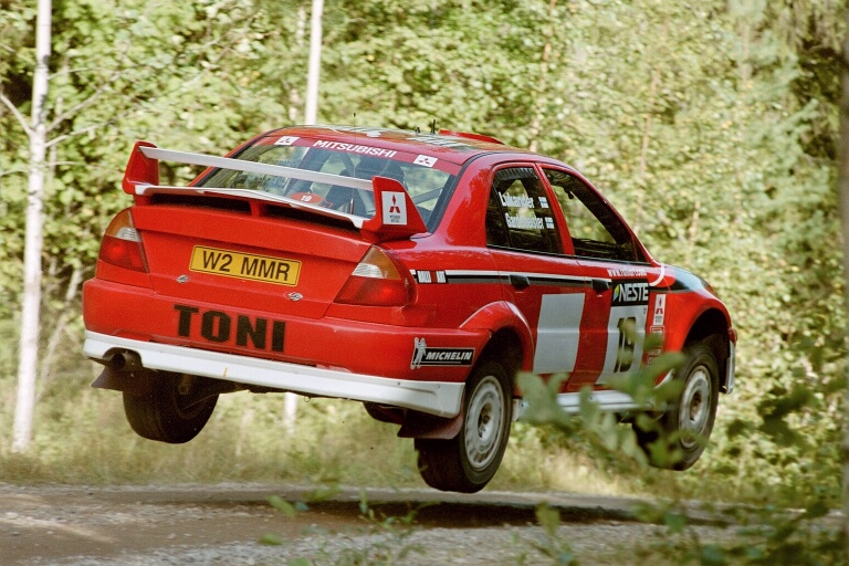 Toni Gardemeister driving his Mitsubishi Carisma GT (class A8) at the ninth round of 2001 World Rally Championship - Rally Finland.